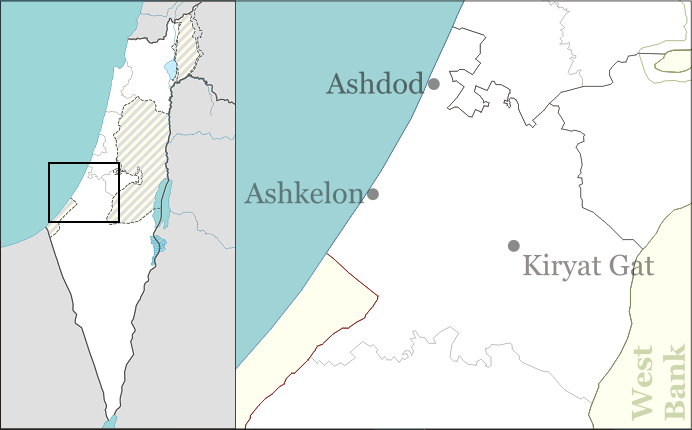 Ashkelon sub-district of the South District of Israel, for pushpin maps.